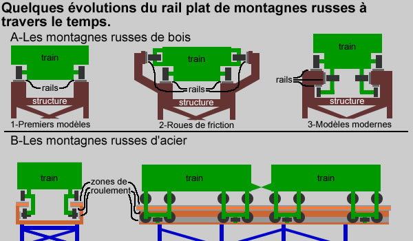 Some evoltuions of the non-tubular roller coasters' tracks through time. Drawing created by myself, Sam-Pig.